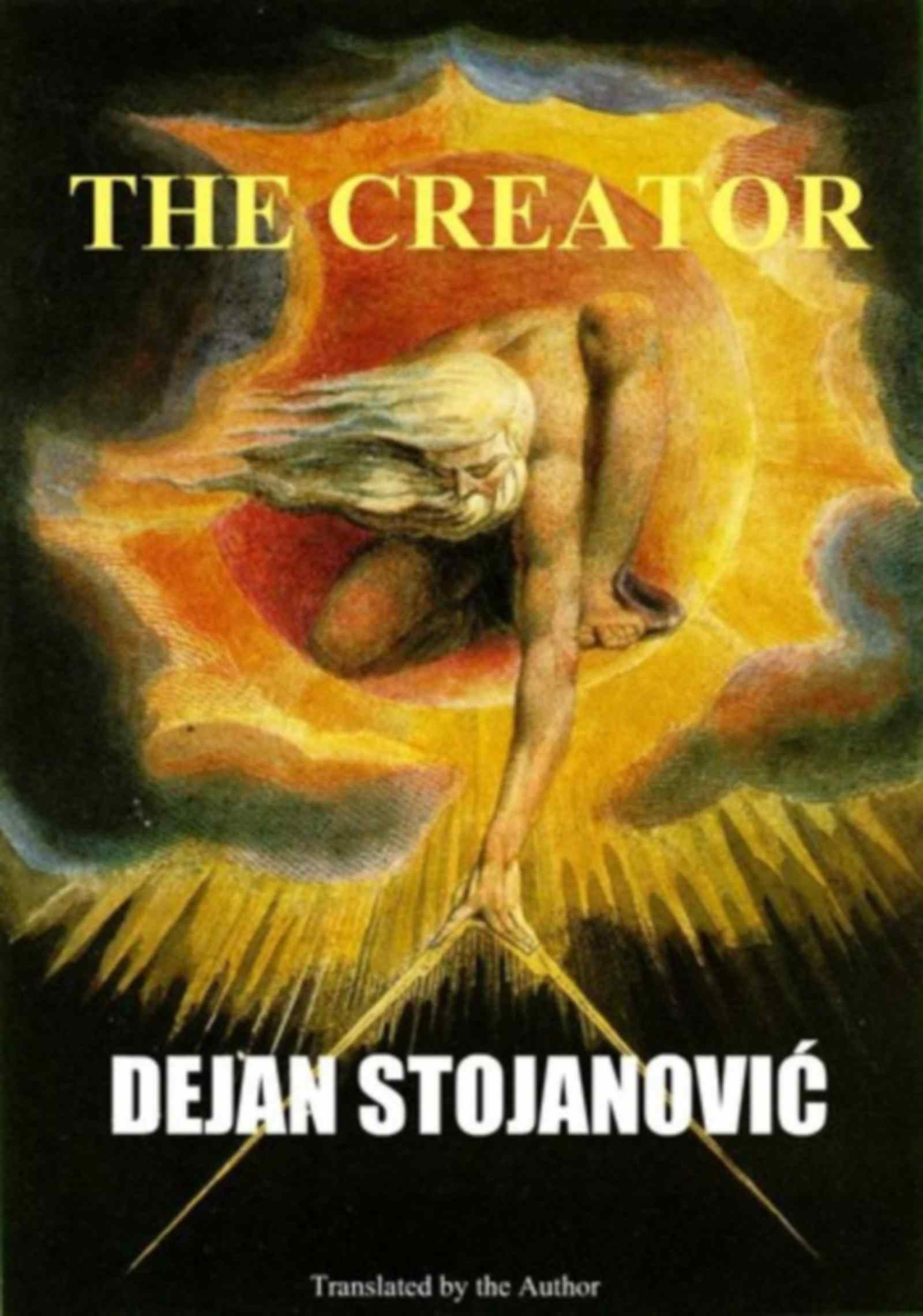 Cover page of The Creator by Dejan Stojanović Translated from the Serbian by Dejan Stojanović File Size: 114 KB Print Length: 87 pages Simultaneous Device Usage: Unlimited Publisher: New Avenue Books; 1 edition (June 17, 2012) Sold by: Amazon Digital Services, Inc. Language: English ASIN: B008CCH646 ID Numbers: Open Library OL25374323M ISBN 13 9781621540199 Amazon Open Library